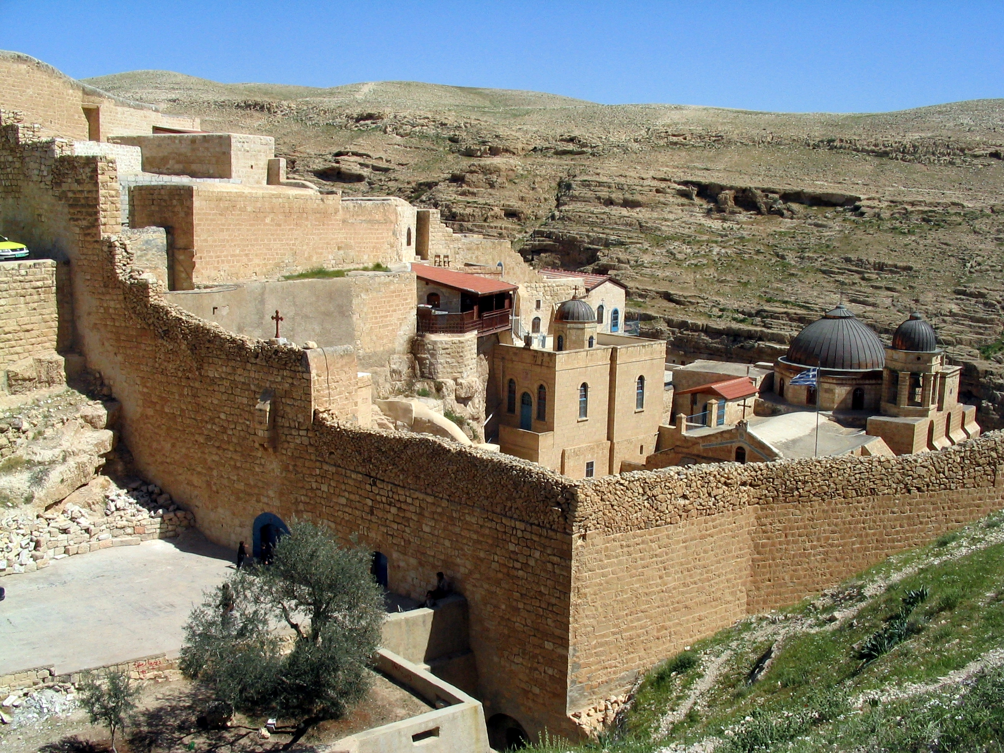 Mar Saba is a Greek Orthodox monastery located near Bethlehem, in the Israeli-occupied West Bank and overlooks the Kidron River